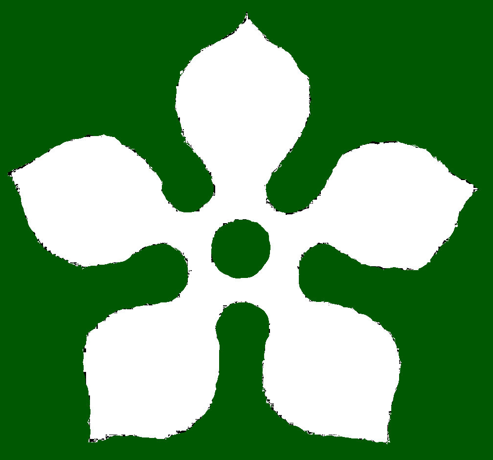 St Peter's School logo. School no longer in existence